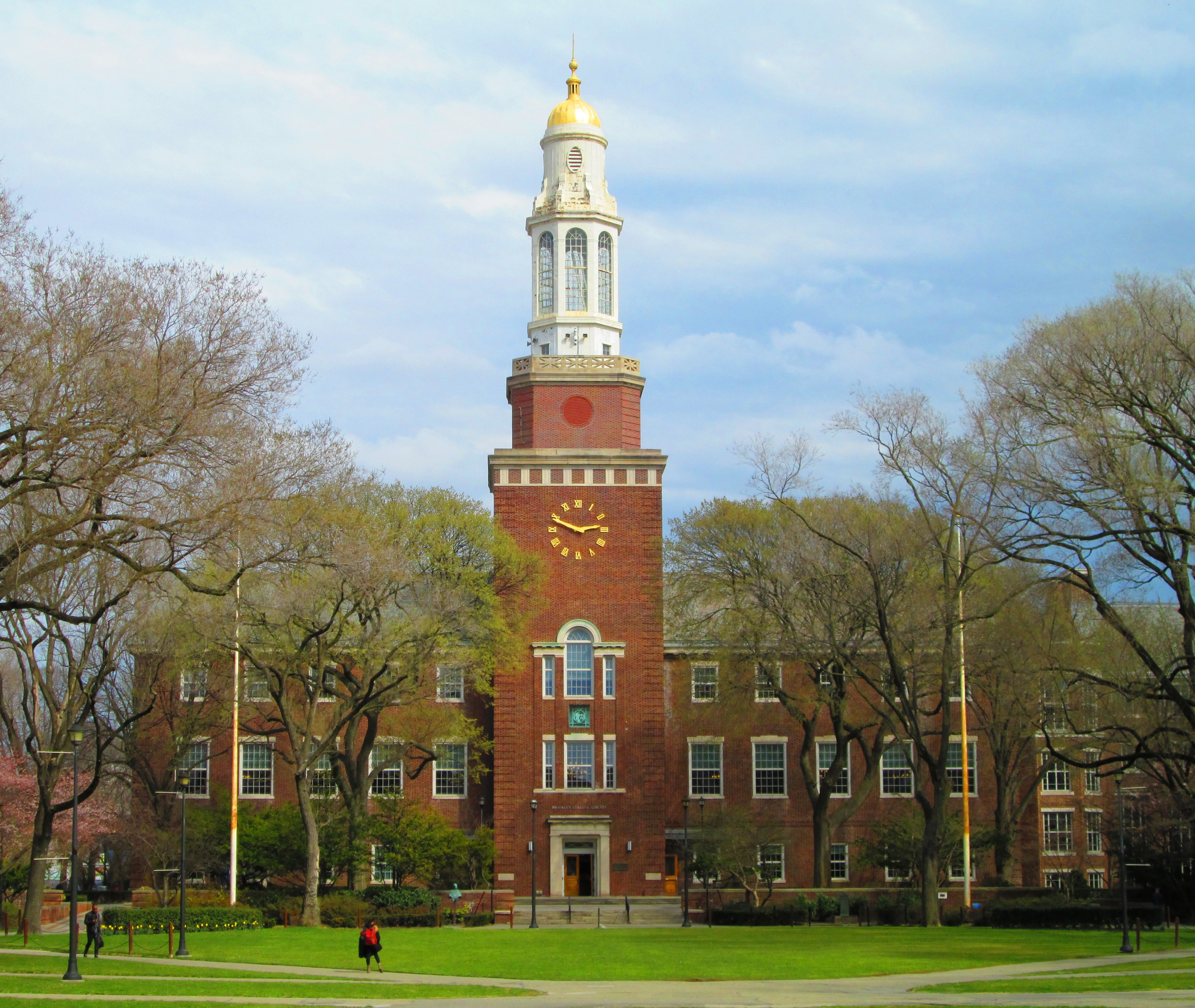 Brooklyn College is a senior college of the City University of New York, located in the Midwood neighborhood of Brooklyn, New York City. The origin of Brooklyn College occurred in 1910 with the establishment of an extension division of the City College for Teachers. The school then began offer evening classes for first-year male college students in 1917. In 1930 by the New York City Board of Higher Education, the College authorized the combination of the Downtown Brooklyn branches of Hunter College – at that time a women's college – and the City College of New York – a men's college – both of which had established been in 1926. With the merger of these branches, Brooklyn College became the first public coeducational liberal arts college in New York City. The college's 26-acre (110,000 m2) campus is known for its beauty, and is often regarded as "the poor man's Harvard" because of its low tuition and reputation for respectable academics. The master designer of the original Georgian style campus, now known as the "East Quad", was Randolph Evans.